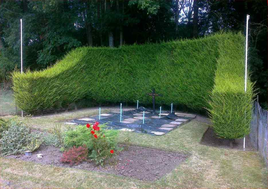 Memorial to Pilot Officer Shaw, killed on 3 September 1940 in a Hurricane aircraft, crashed near the site of the memorial South of Chart Road, between Sutton Valence and Chart Sutton, near Maidstone, England